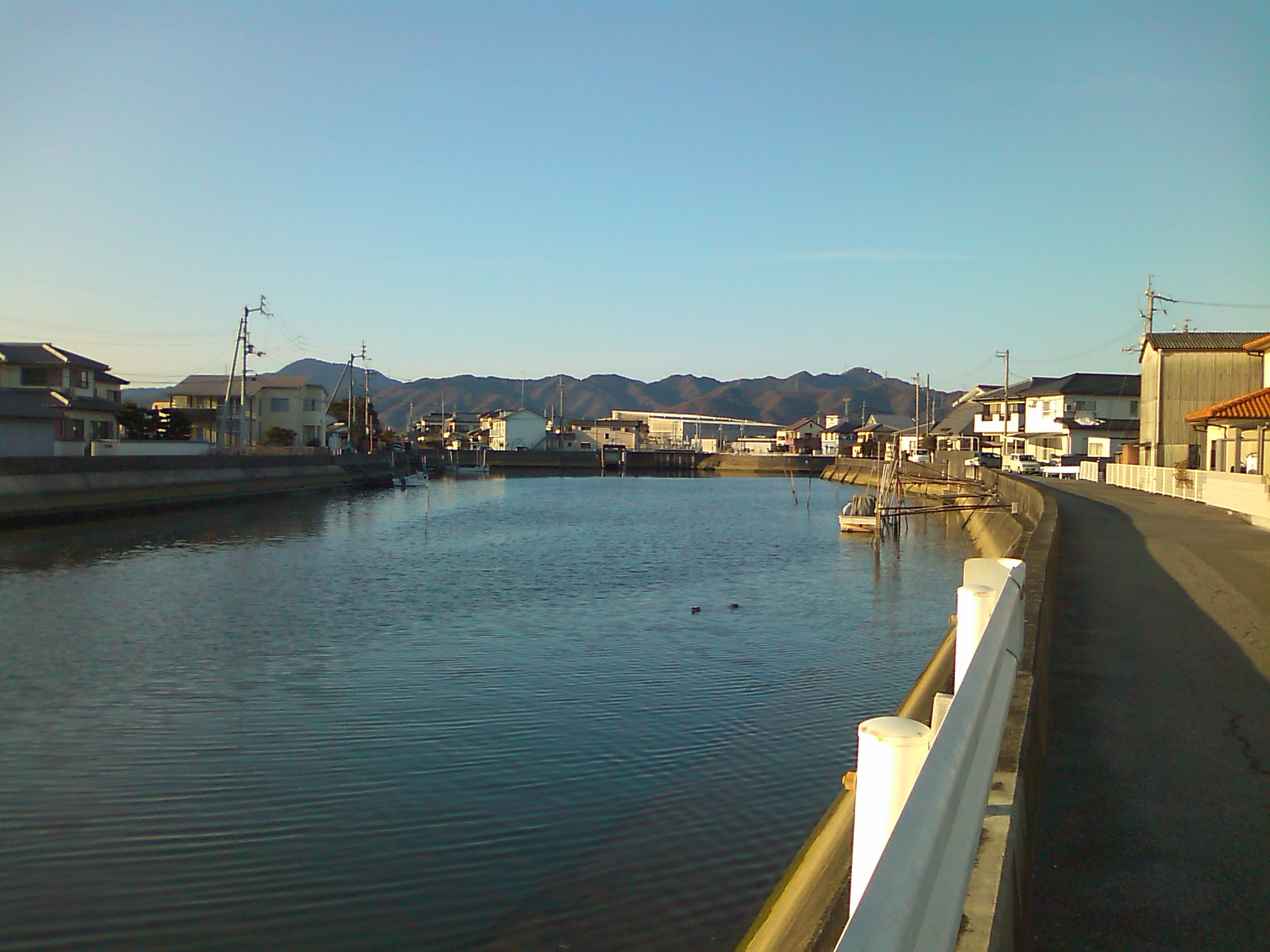 Nabe River, Japan